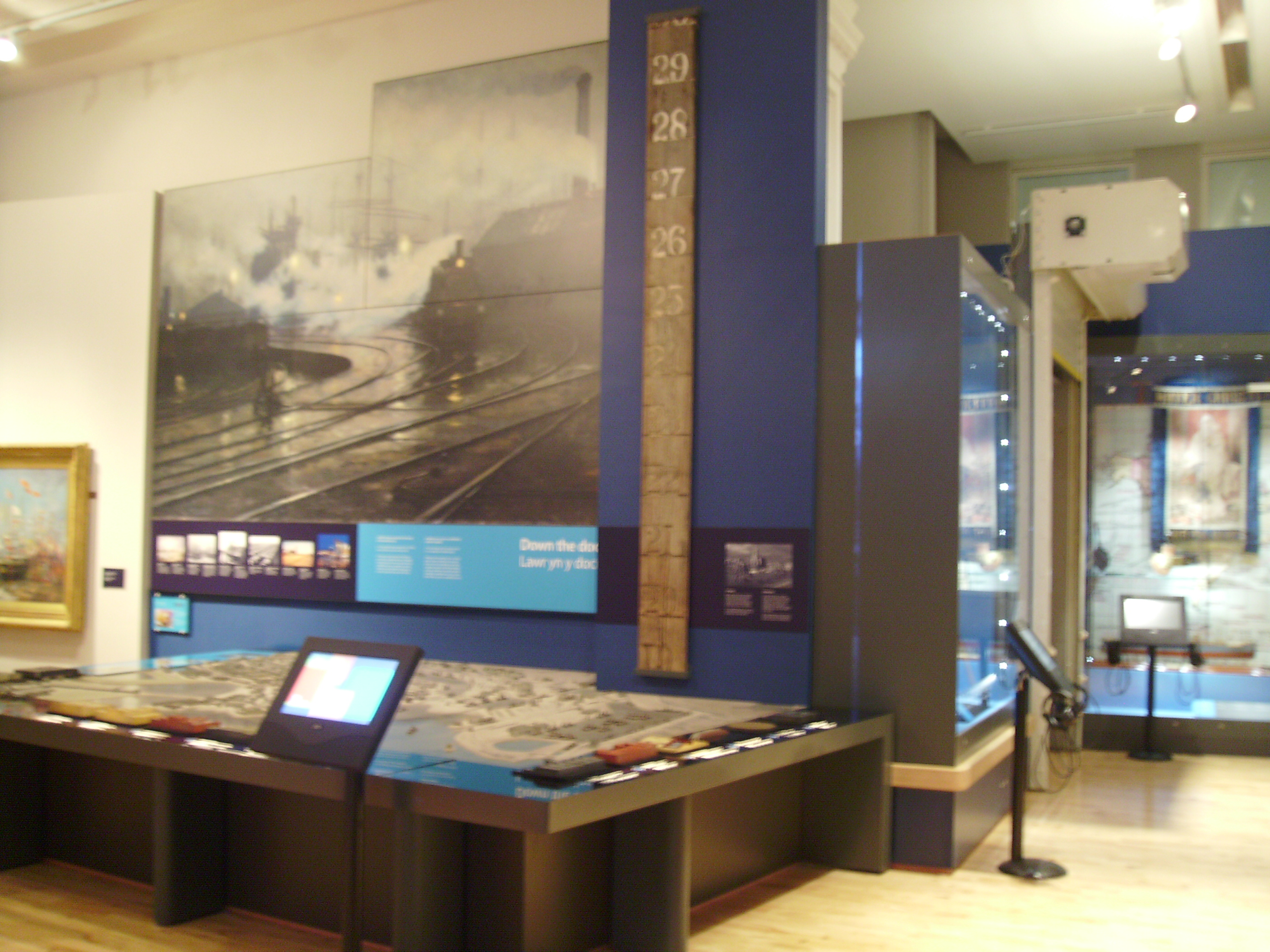 Inside the Cardiff Story Museum, The Old Library, Cardiff, Wales